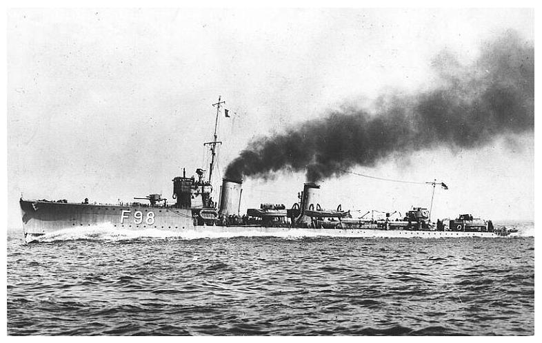 Photograph of British Modified R class destroyer HMS Tower, during sea trials.